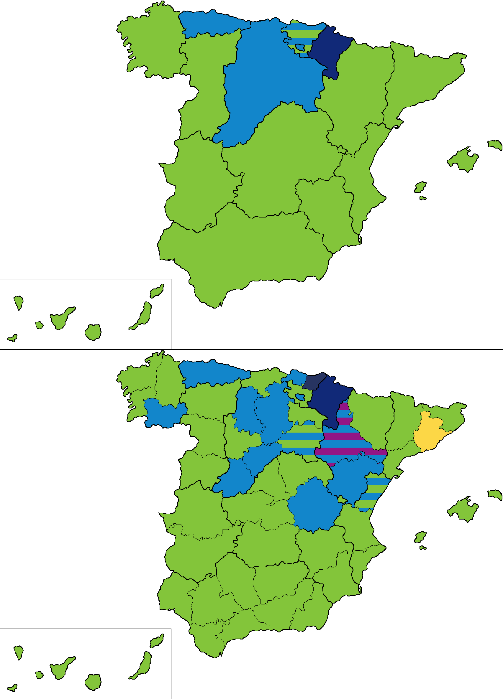 Most voted party in the 1905 Spanish Congress of Deputies election by regions and provinces.